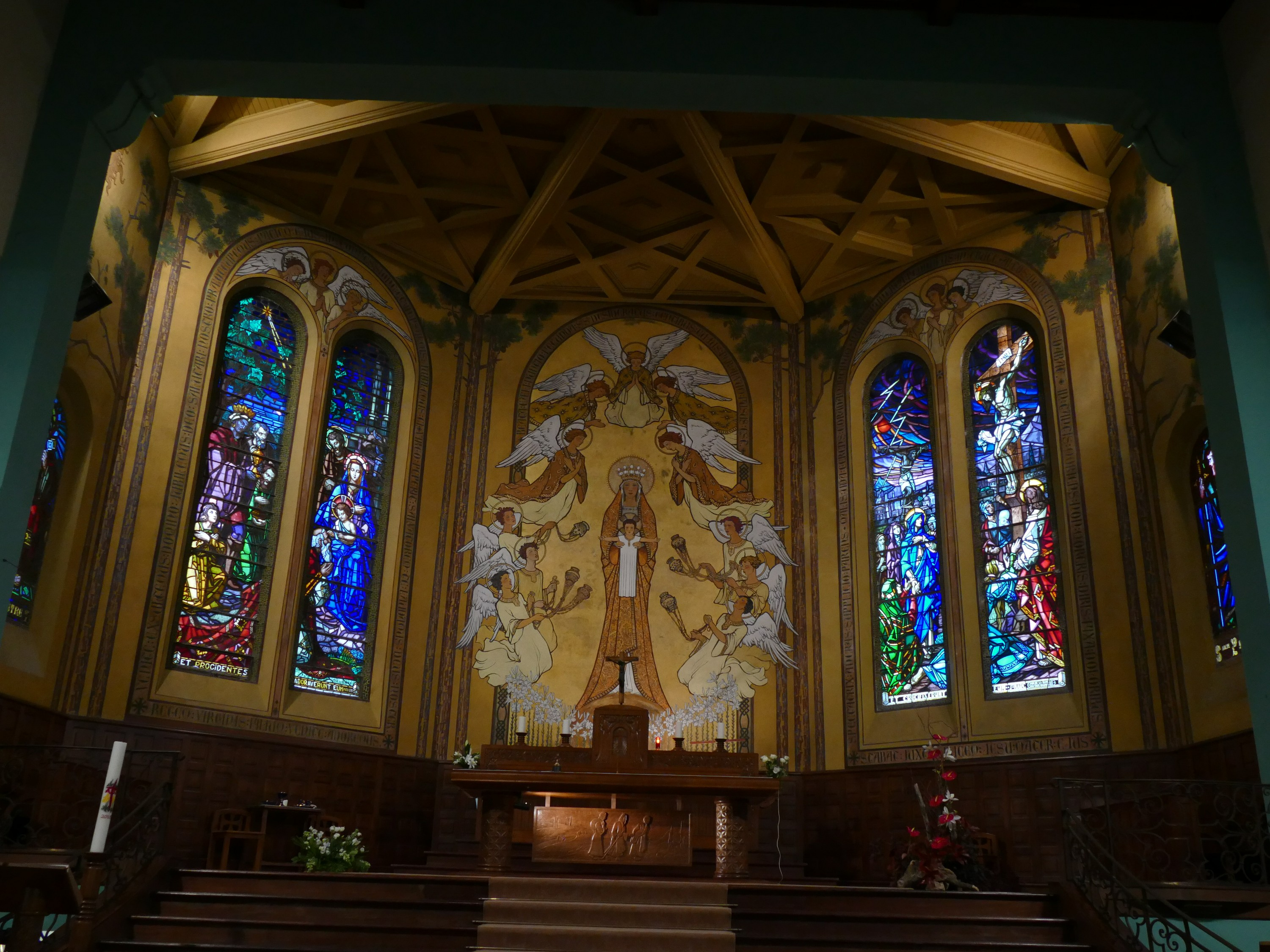 Sainte-Marie's church in Anglet (Pays Basque, Aquitaine, France).